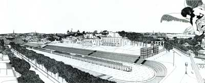 stade